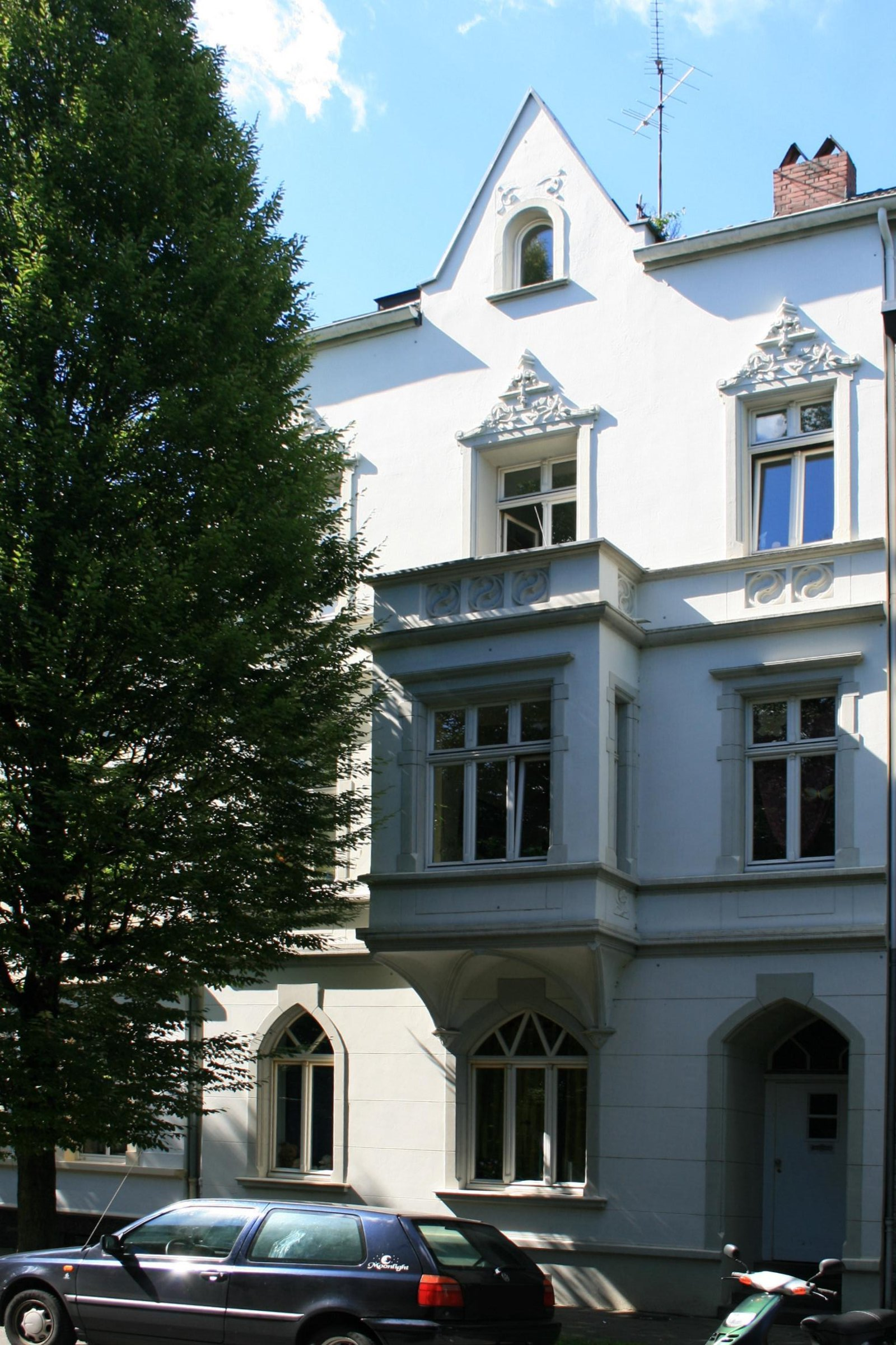 Cultural heritage monument No. K 008 in Mönchengladbach